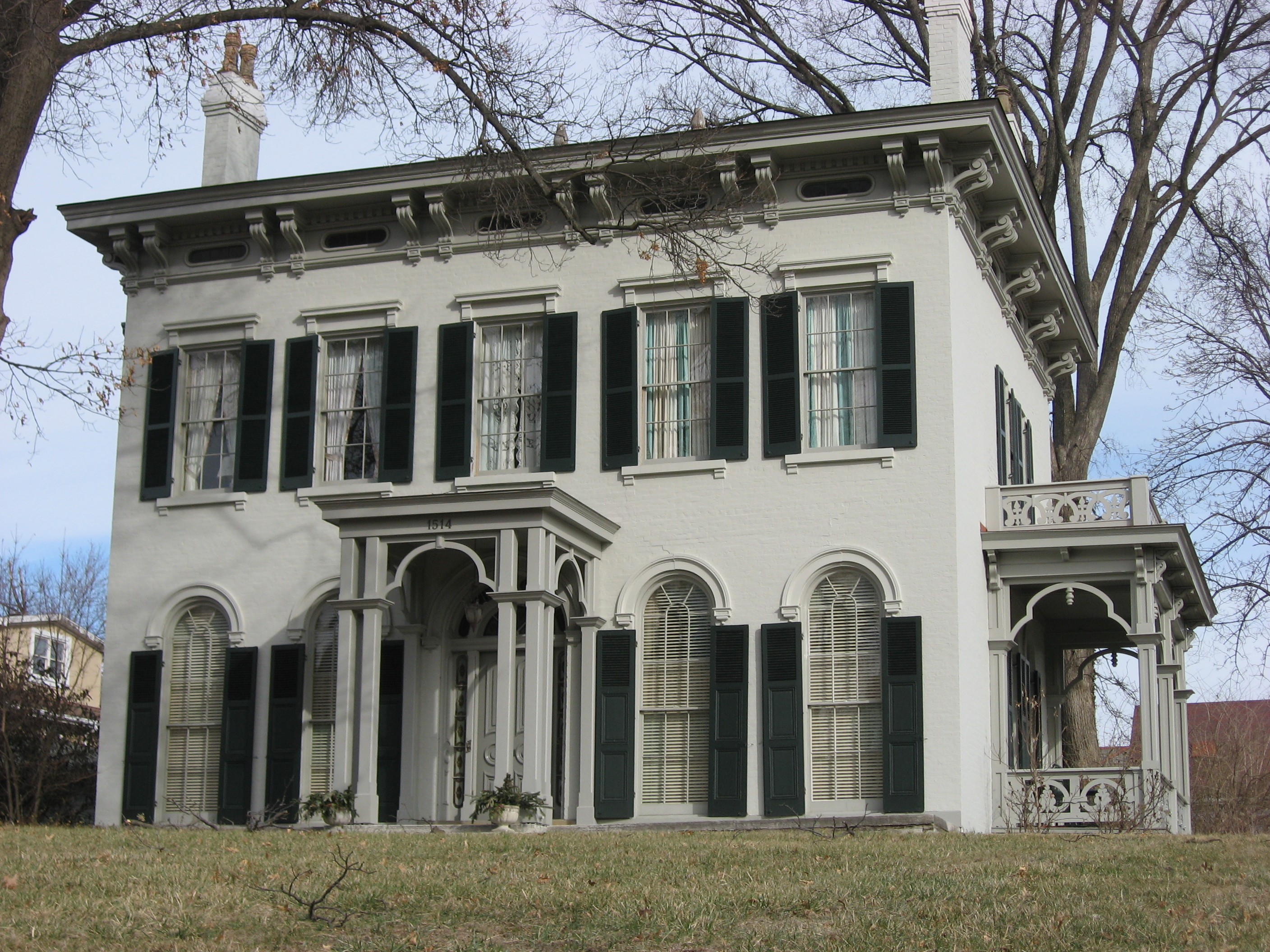 Front of the Bernard H. Moormann House, located at 1514 E. McMillan Street in the East Walnut Hills neighborhood of Cincinnati, Ohio, United States. Built in 1860, it is listed on the National Register of Historic Places.